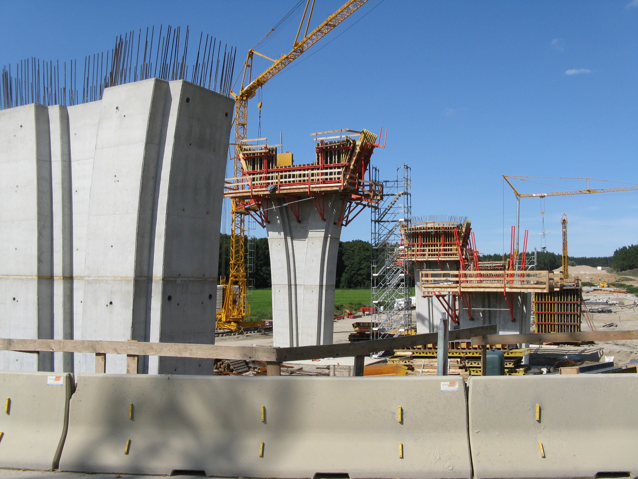 Bundesautobahn (A 14) constructions near Bibow, Mecklenburg-Vorpommern, Germany